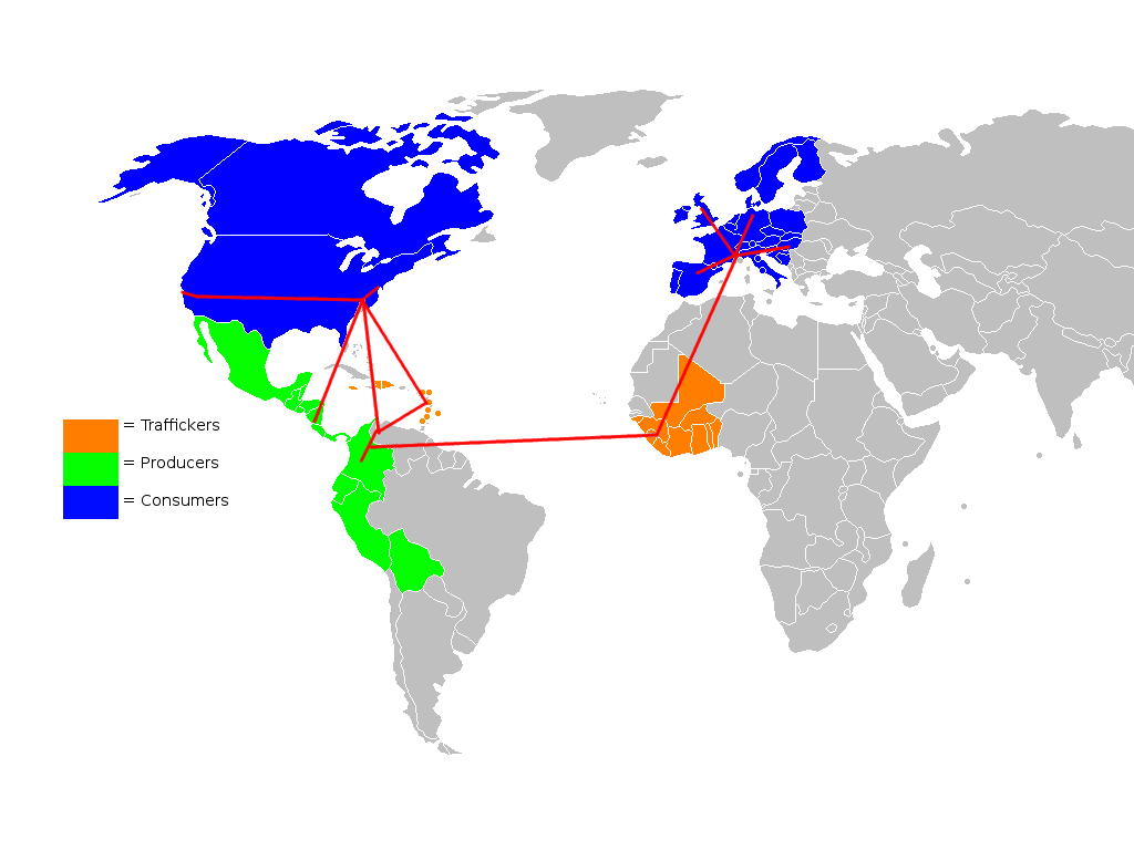 Worldwide cocaine trade map.